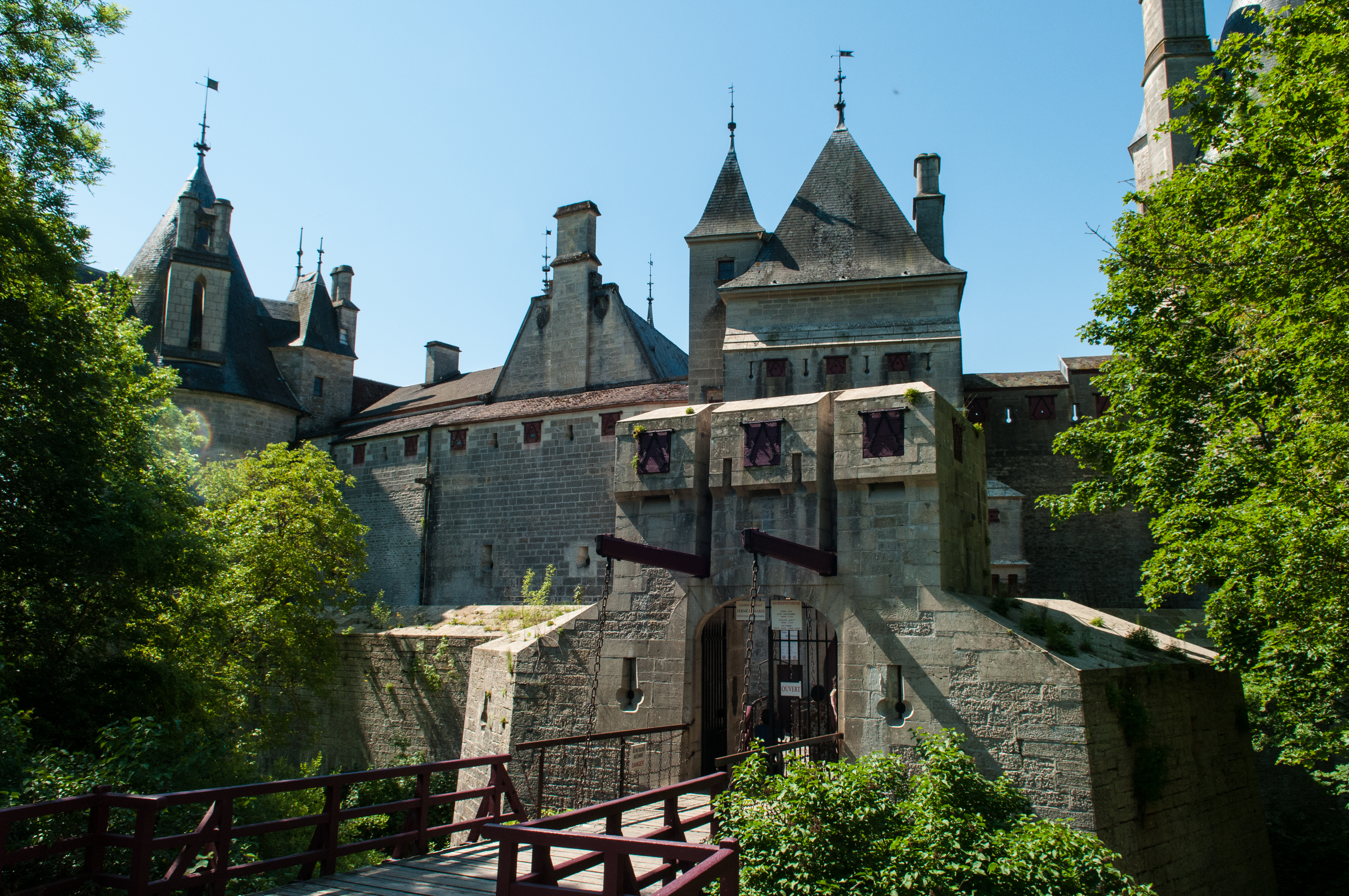 The Château de la Rochepot is a 13th century castle, later converted into a château, in the commune of La Rochepot in the Côte d'Or département in Burgundy, France. It lies on the N6 to the south west of the town of Beaune. The castle was built in the 13th century on an outcrop of limestone to the north of the village of La Rochepot. As with many castles, it fell into ruin and it was only restored in the 19th century by the Carnot family. It is open to visitors. Château de la Rochepot. (2012, May 20). In Wikipedia, The Free Encyclopedia. Retrieved 13:24, June 4, 2012, from